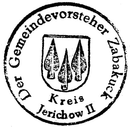 Seal of Zabakuck, Germany